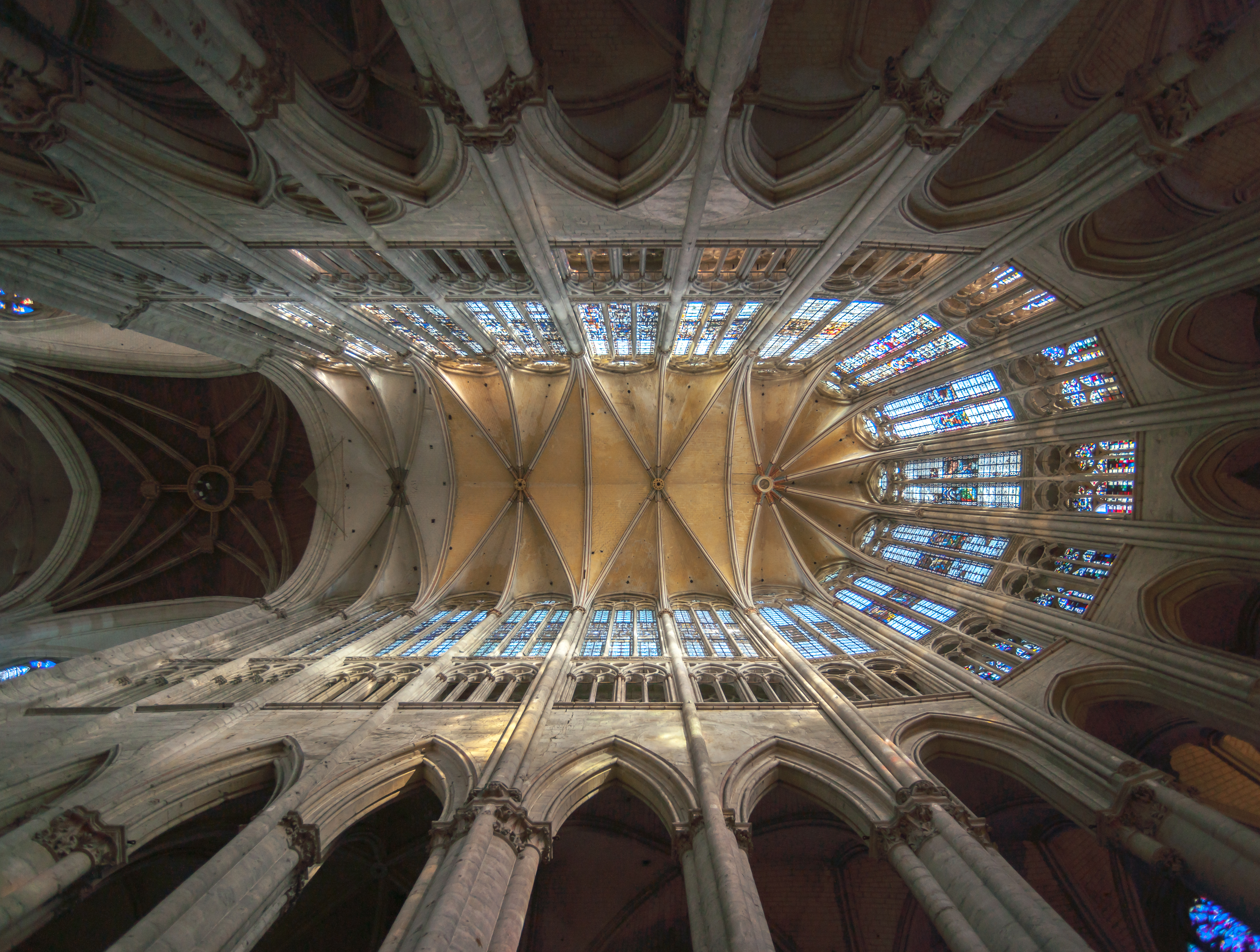 Cathedral of Saint Peter of Beauvais, vault of the choir, Beauvais/France.